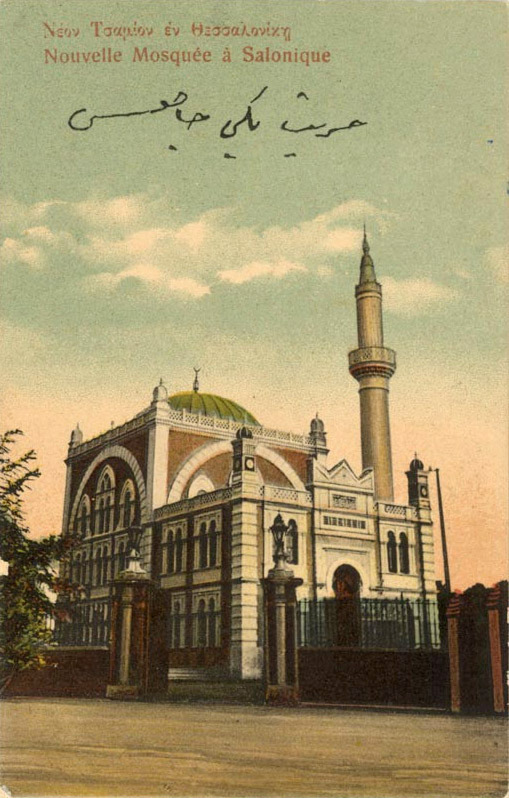 Yeni Mosque (1902-12) - old cart postale, Thessaloniki, Greece.